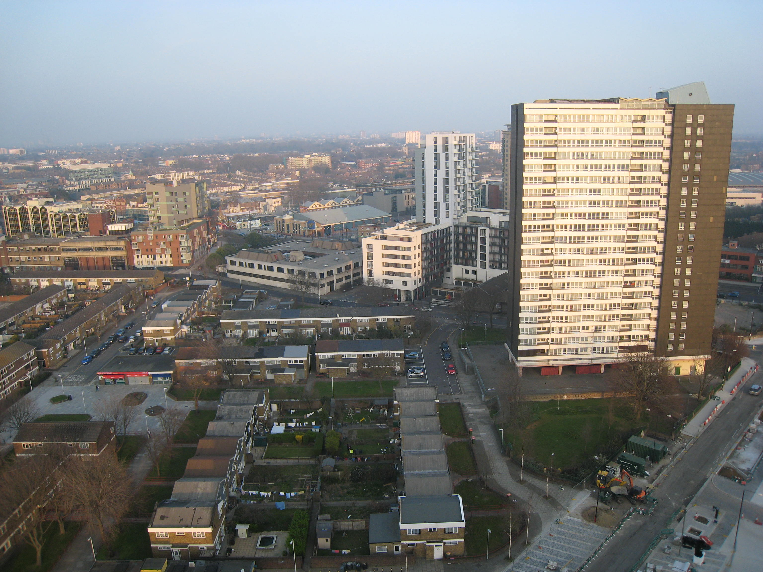 Carpenters Estate March 2012